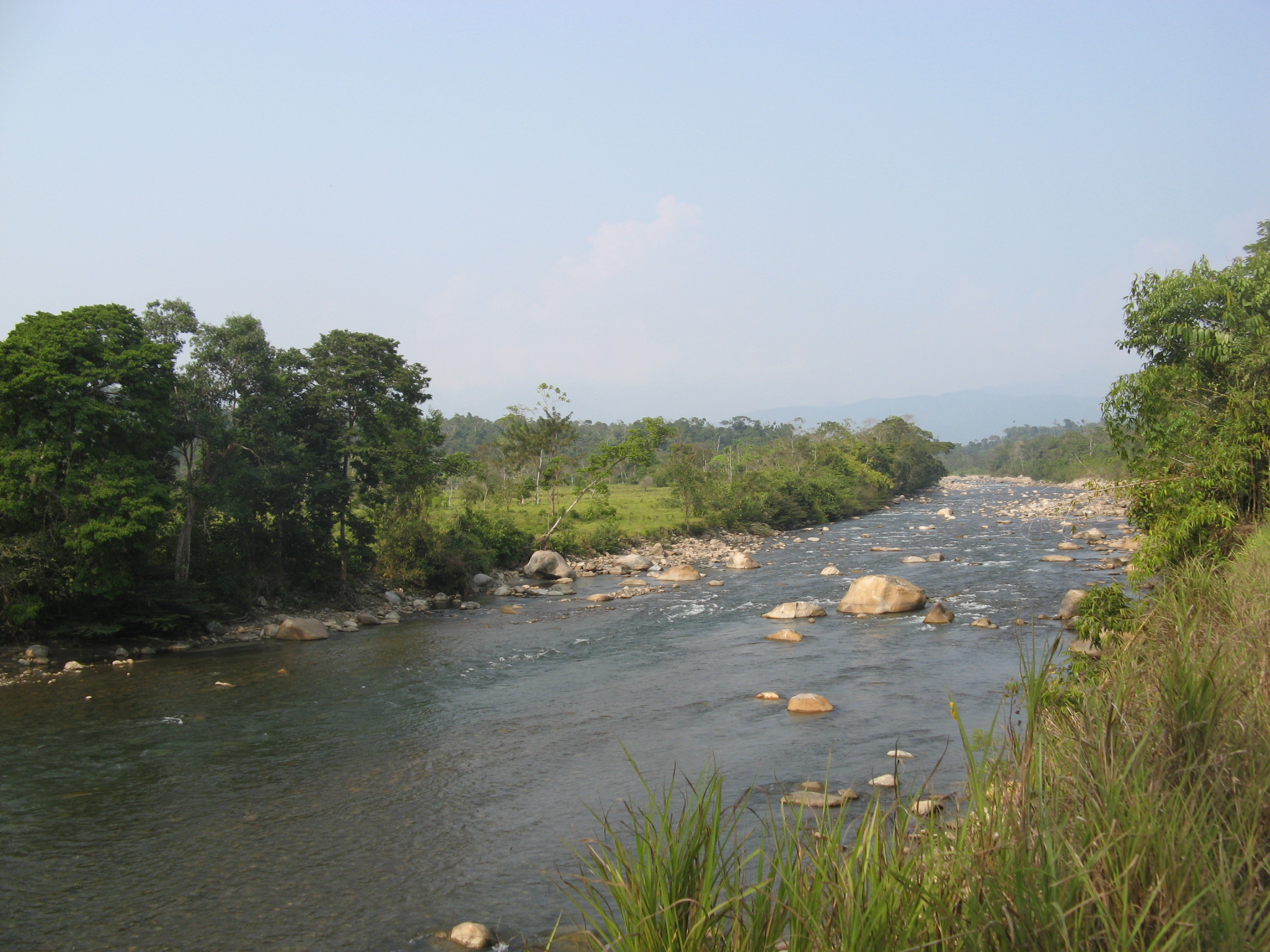 Manu Park in South East Peru